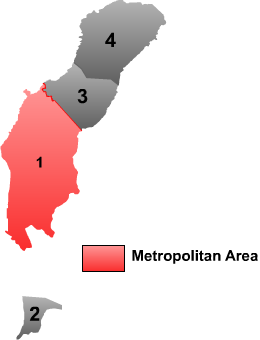 Map of Karamay prefecture in Xinjiang province